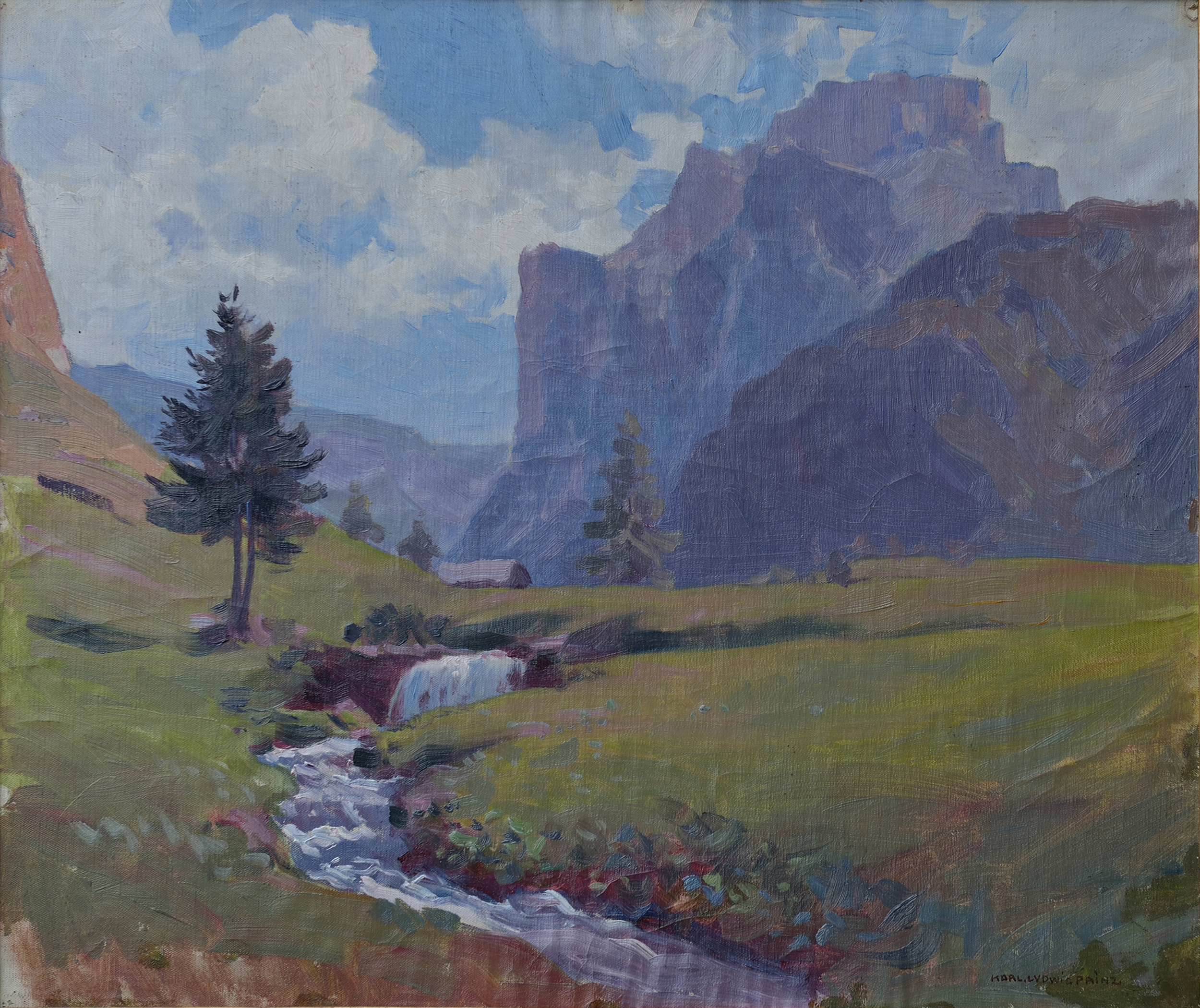 THe entrance to te Val longia' vally in Sëlva in Gherdëina. Oil painting by Karl Ludwig Prinz (1875-1944)